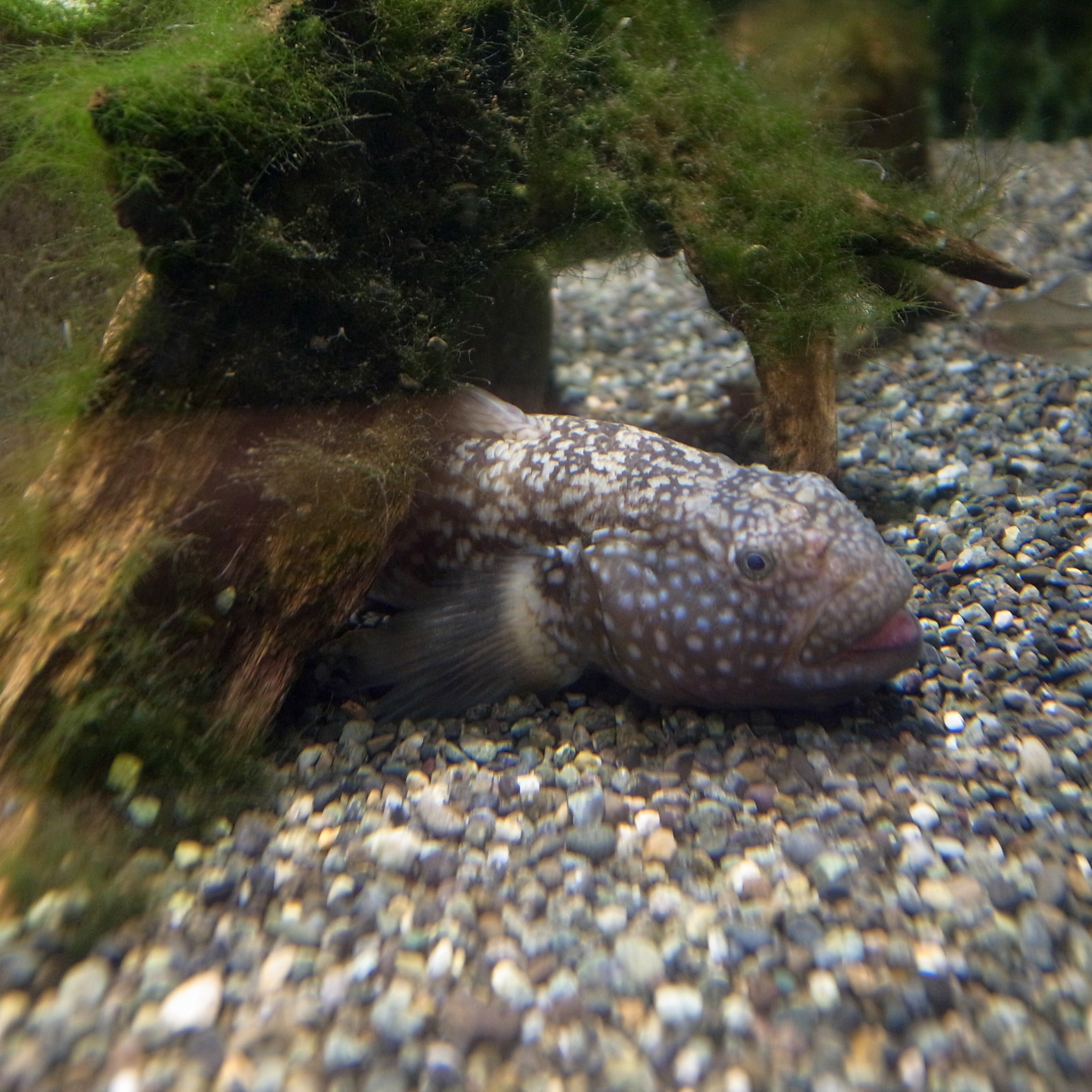 Dusky tripletooth goby (Tridentiger obscurus (Temminck & Schlegel, 1845)) in Nagoya Higashiyama Zoo and Botanical Gardens, Japan